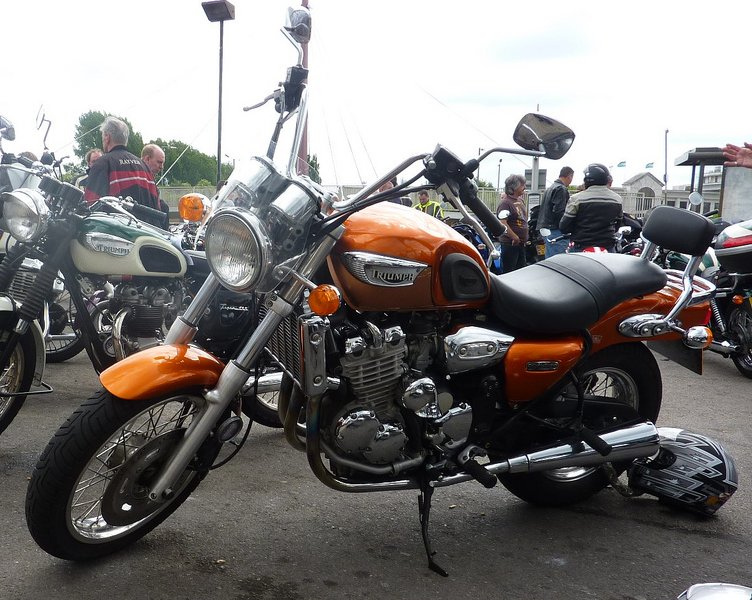 Rare first variant of the then-new 900cc Hinckley Thunderbird